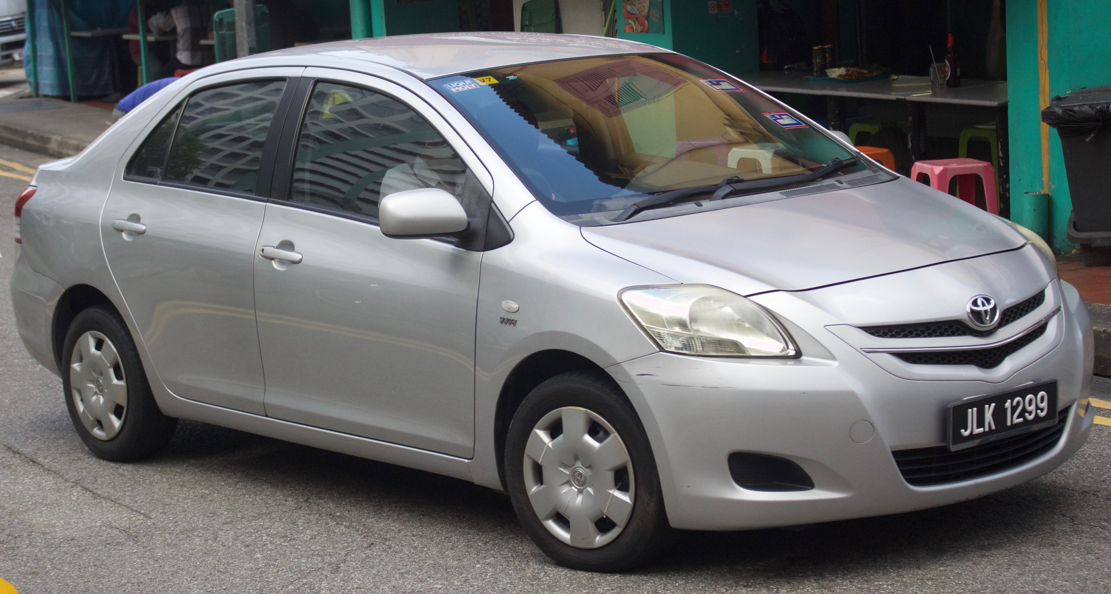 2007-2010 Toyota Vios (NCP90) 1.5 J sedan. Photographed in Singapore. Bears Malaysian plates.